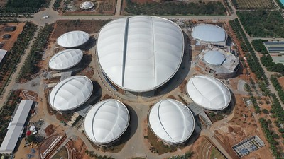 This largest meditation hall can accommodate 100,000 practitioners at one go, making it the largest closed structure meditation center in the world.